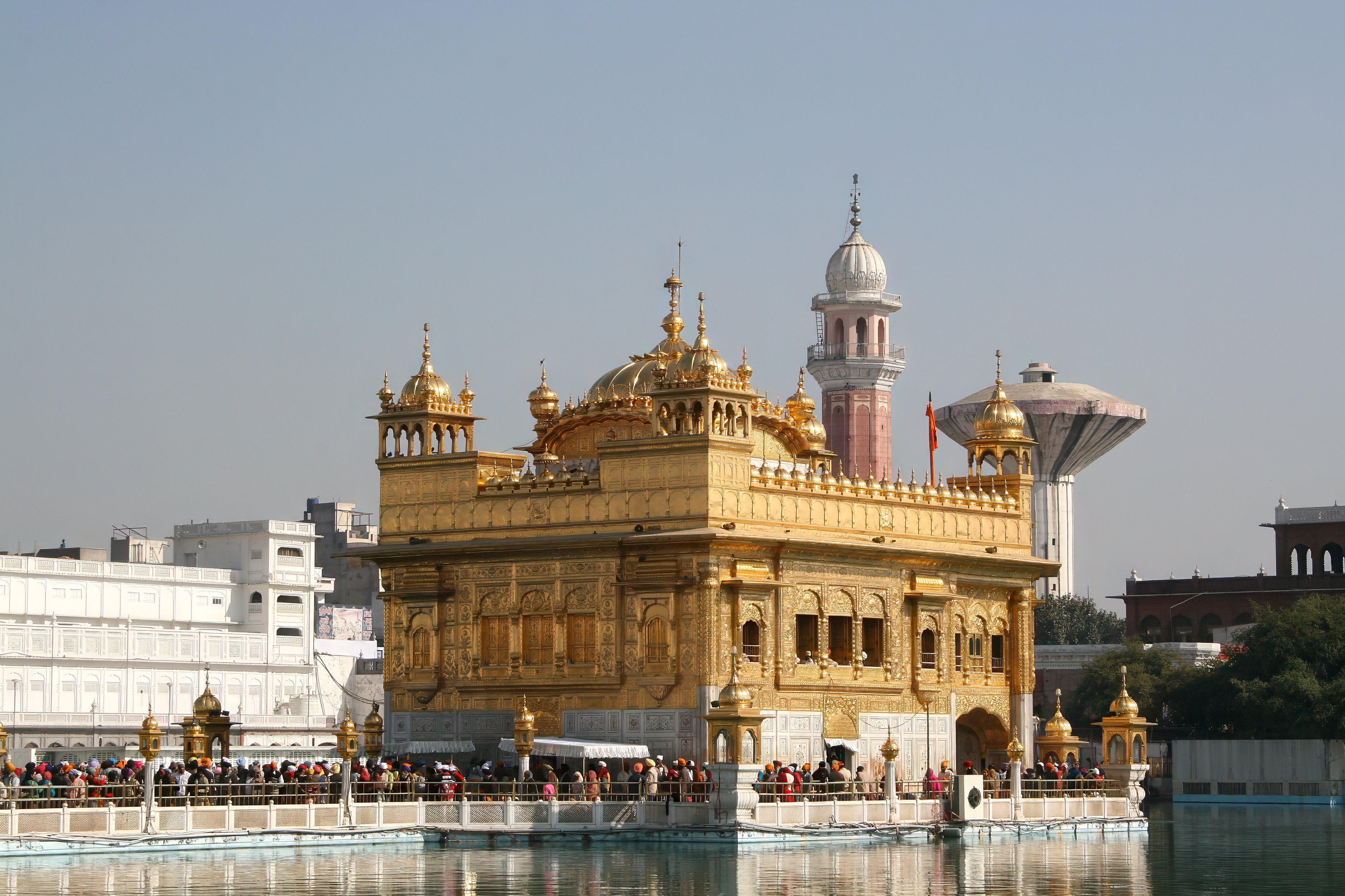 Harmandir Sahib or the Golden Temple, Amritsar, India